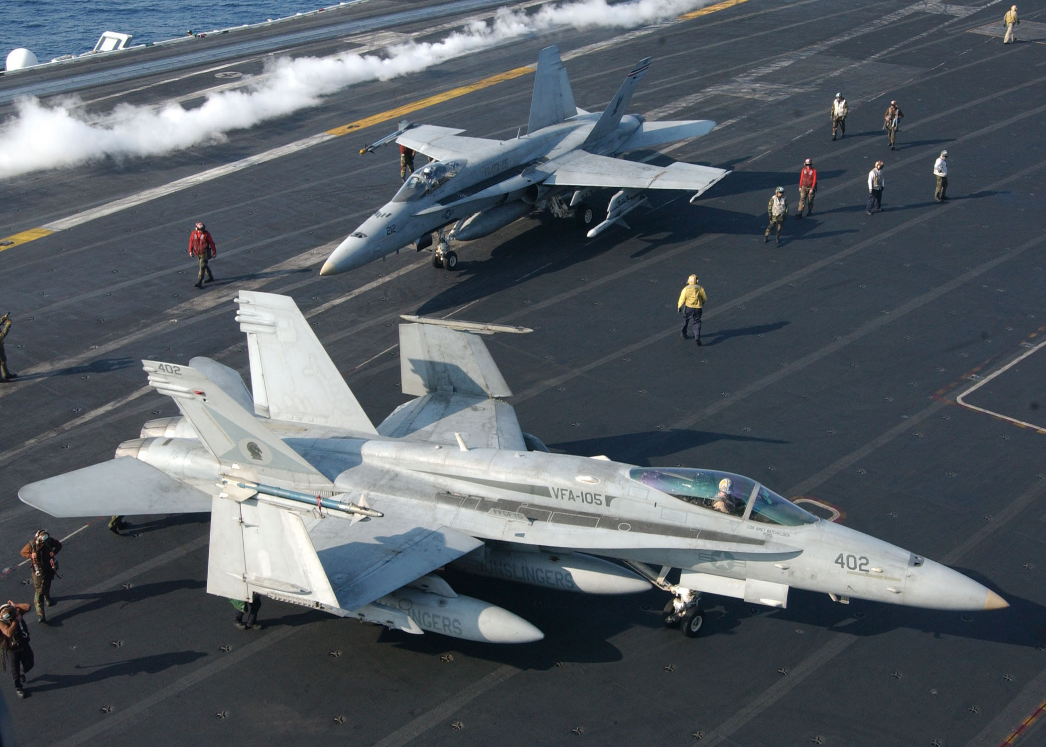 Mediterranean Sea - Two F/A-18 Hornets assigned to Carrier Air Wing Three (CVW-3) prepare to launch from the flight deck of USS Harry S. Truman (CVN 75) during flight operations aboard the aircraft carrier.